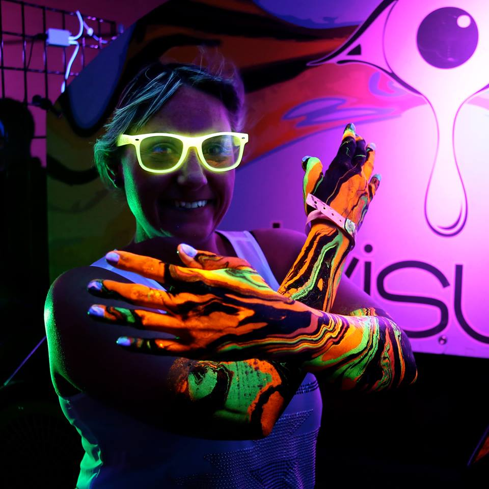 A girl stops for a photo at a BLVisuals body painting installation.